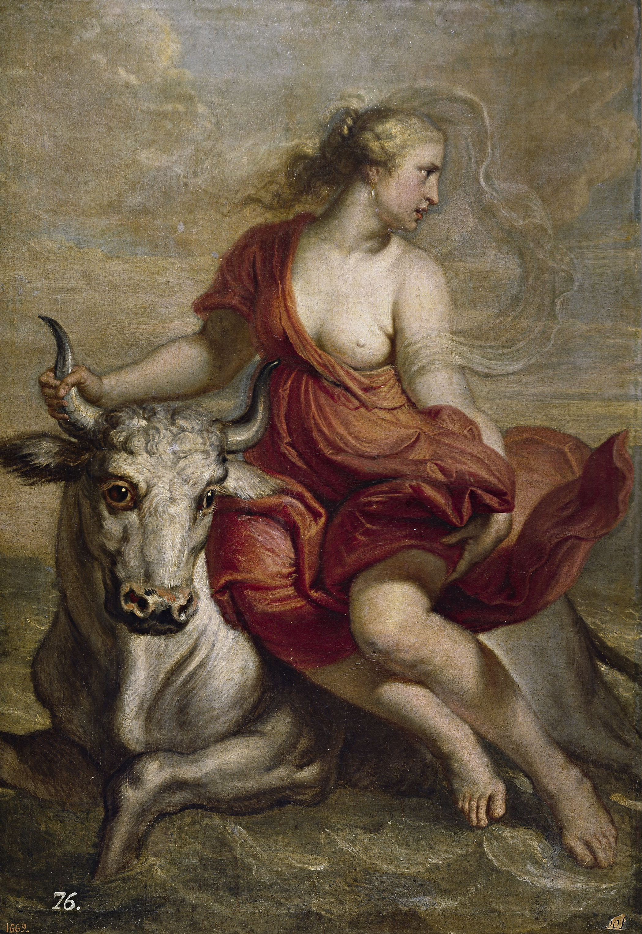 The Rape of Europe